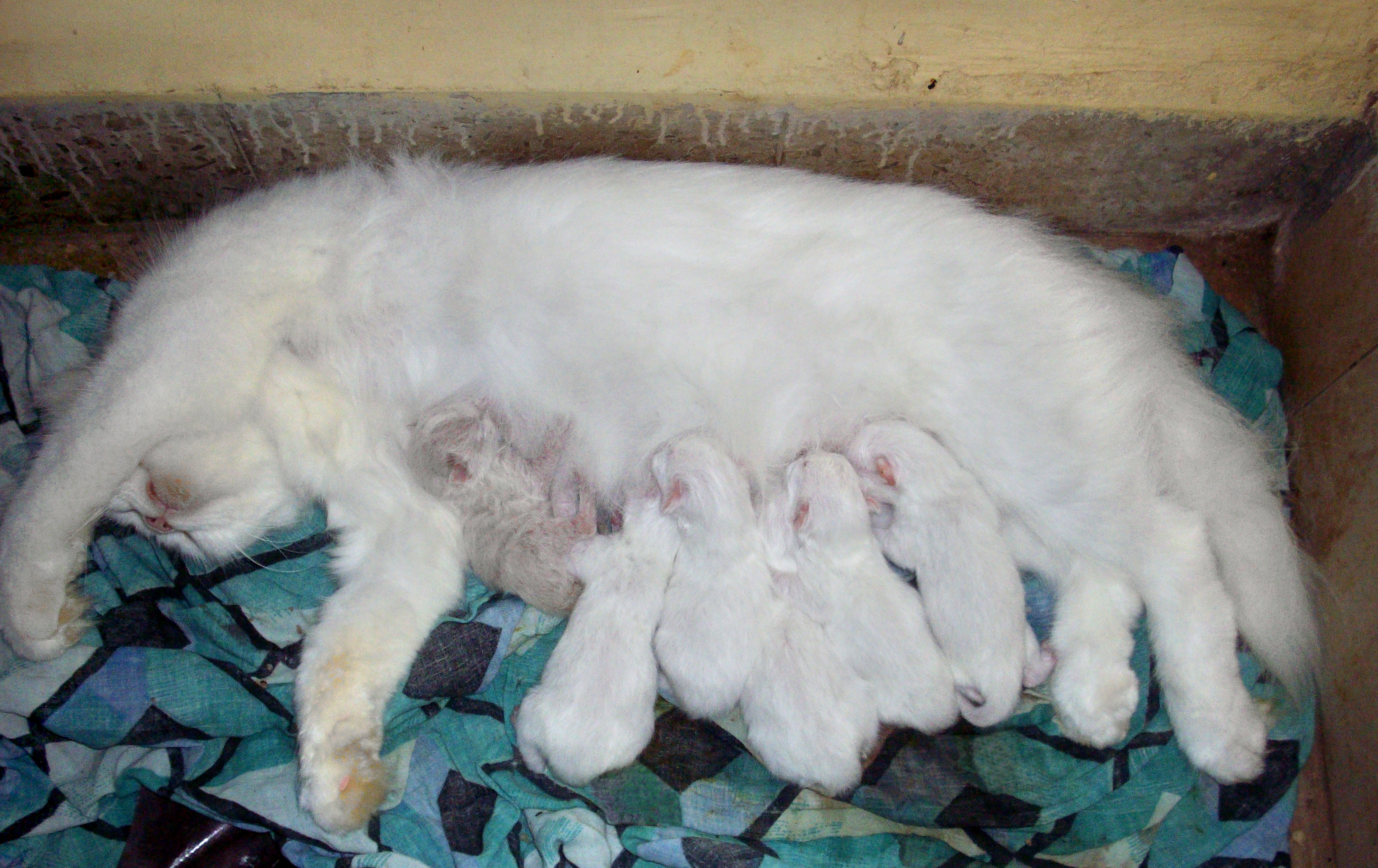 Doll faced Persian cat Matahari with her 6 kittens which are 2 days old. Most kittens of a large litter never survive in the wild, hence most feral cats average about 2 to 4 kittens/litter. “Persian” and other “Pedigreed Cats” have smaller litters barring the “Siameese” which has large litters upto 7 or 8. Mortality rate in large litters is high and on an average 2 or 3 survive to adulthood in “Pedigreed Cats” bred by breeders and “Pet Fanciers”. These kittens are just 2 days old.